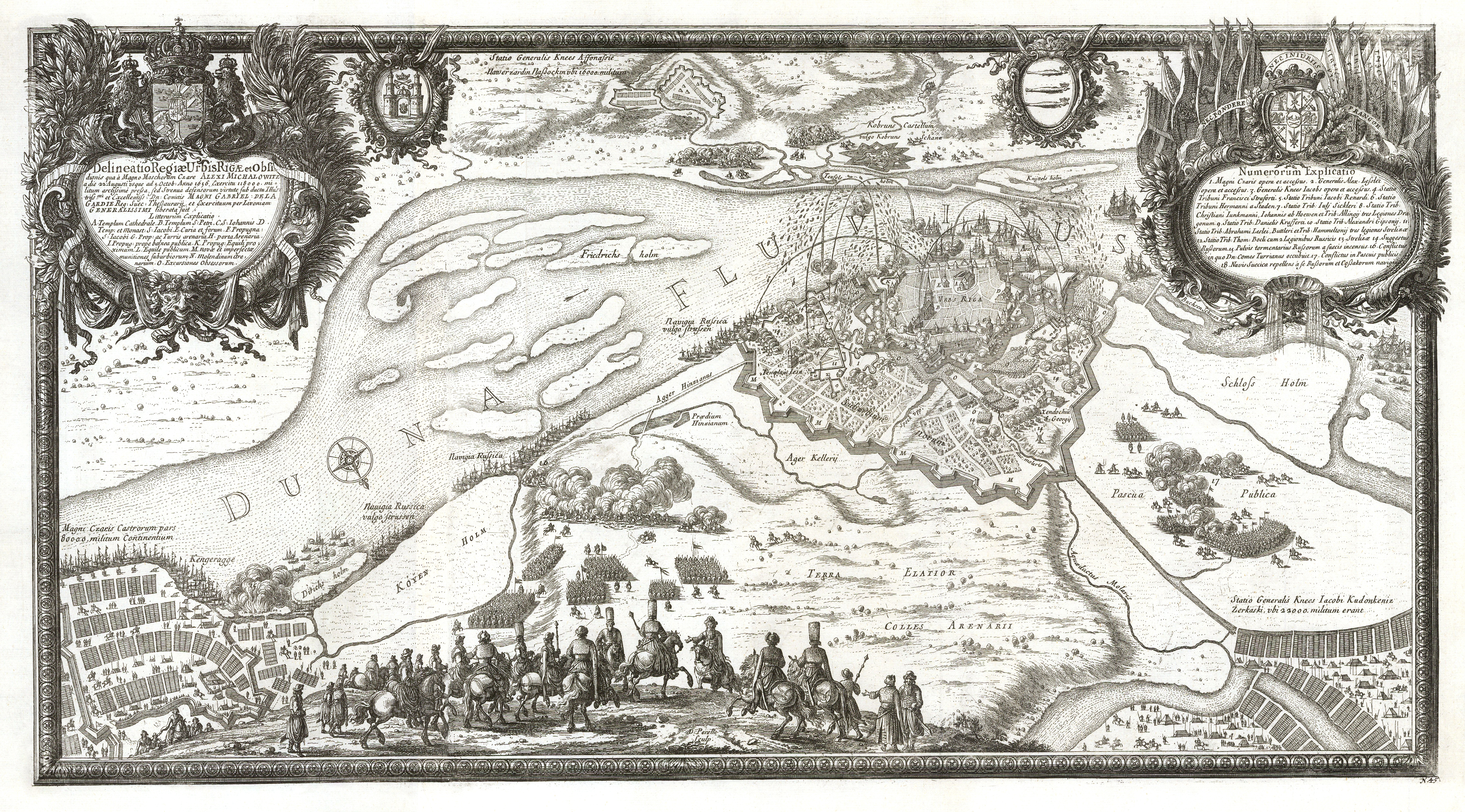 The siege of Riga by the Russian troops in 1656